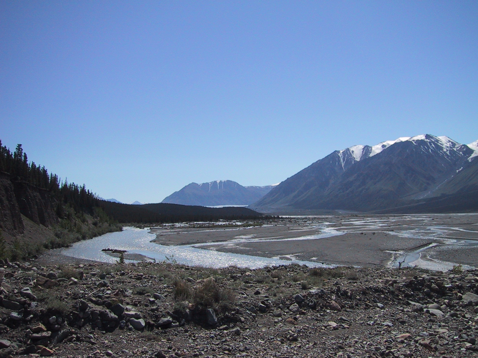 A sliver of Donjek Glacier can be seen in the distance, behind the row of trees in the middle of the photo. The third straight day of a Yukon heat wave have melted the glaciers considerably, the route along the river bank is no longer possible because the flood plain is flooded. EXIF date is incorrect - taken in July 2002, per photographer's Donjek Trek July 2002 Flickr album.